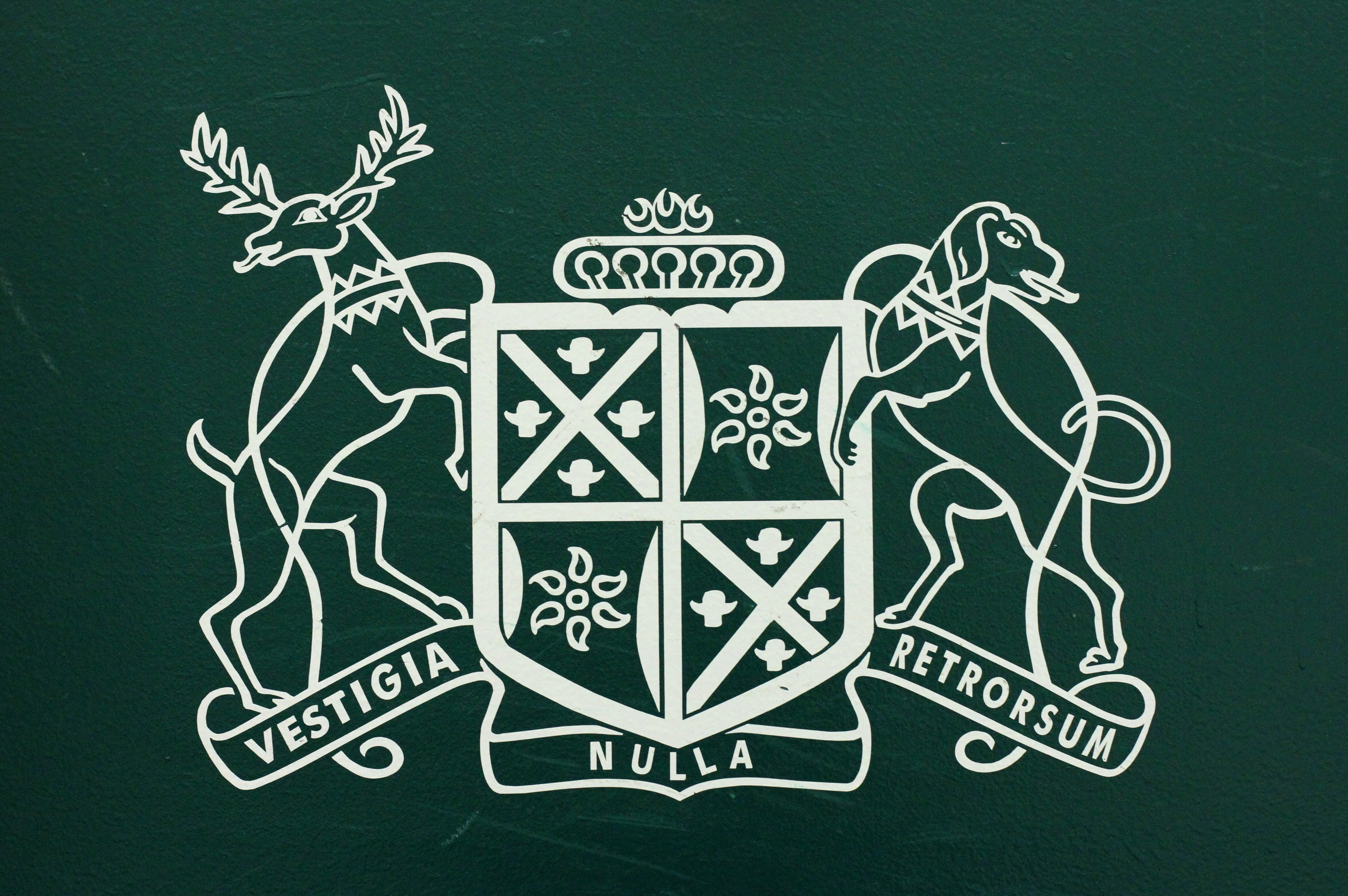 The Winchendon School Crest